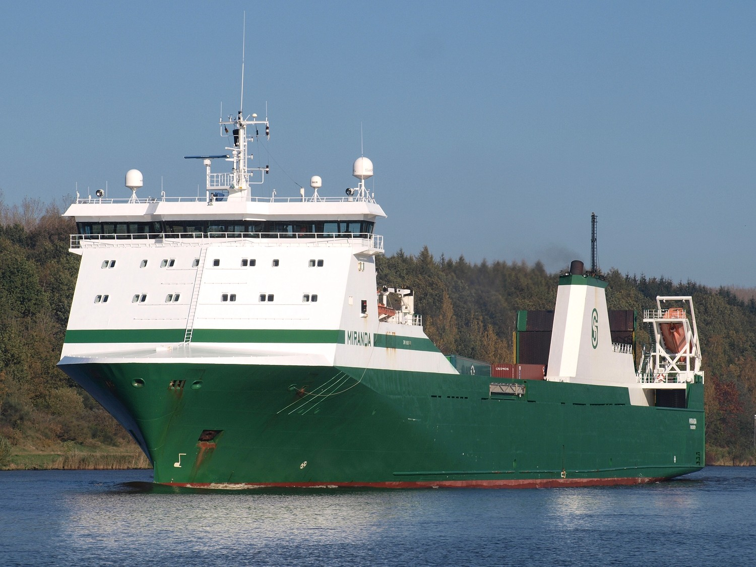 RoRo ship MIRANDA (IMO 9183790) built at J.J. Sietas Schiffswerft, Hamburg-Neuenfelde (Sietas type 163, yard № 1184, launched: 29-12-1998, delivered: 12-02-1999) for Oy Trailer-Link Ab, Finström (subsidiary of Godby Shipping Ab); photo by Jens Dohrn, Kiel Canal, 23-10-2011.